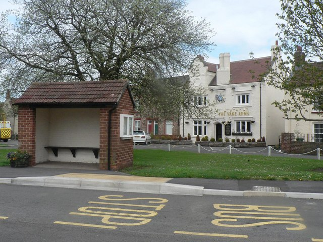 Thorpe Thewles: Vane Arms and village green A pleasant village scene.